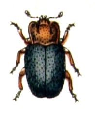 Lithophilus connatus, from Calwer's Käferbuch, Table 46, Picture 6. Taxonomy was updated to 2008, using mostly the sites Fauna Europaea and BioLib. Please contact Sarefo if the determination is wrong!